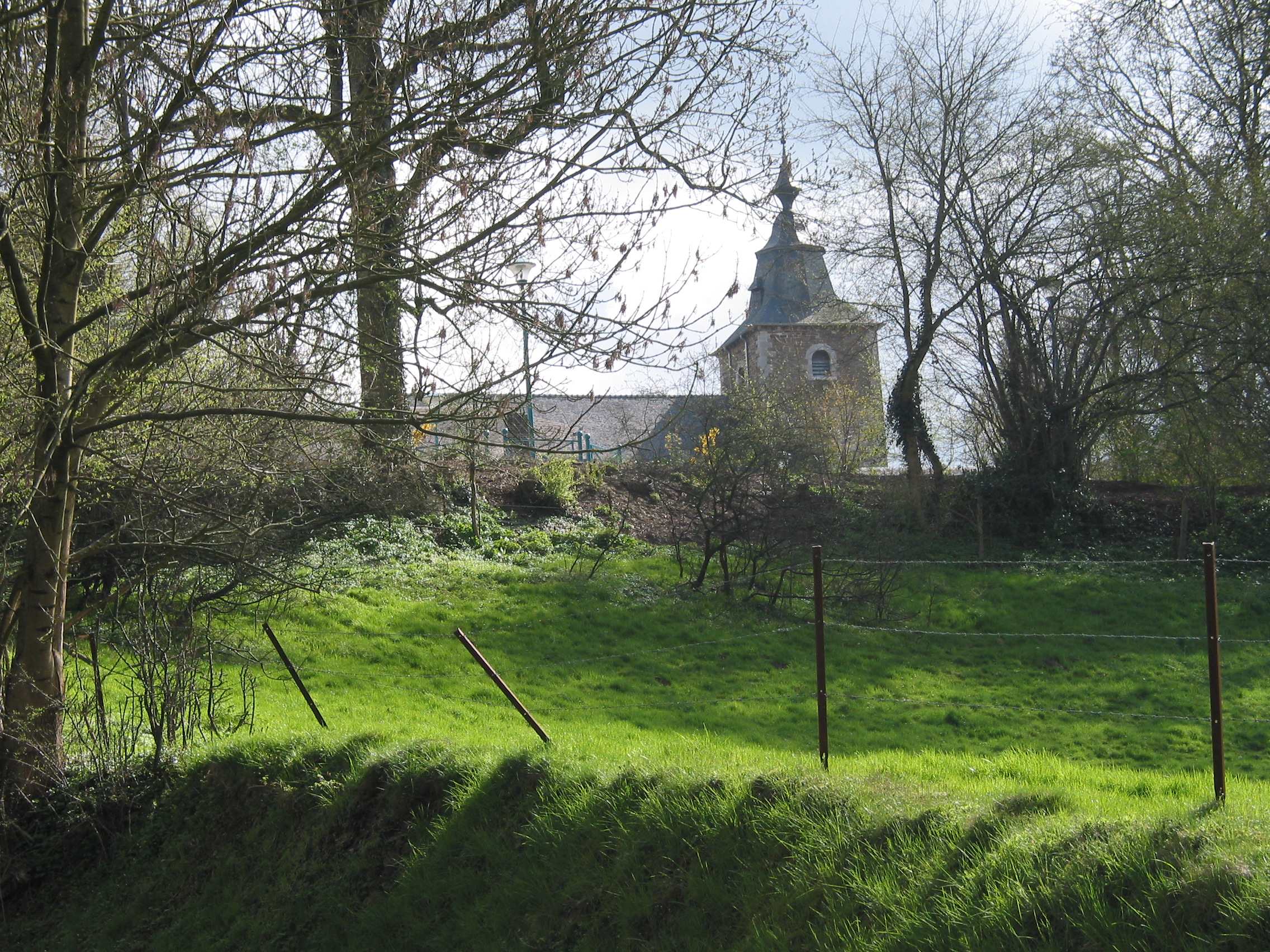 Crupet (Belgium), the St. Martin church (1884).